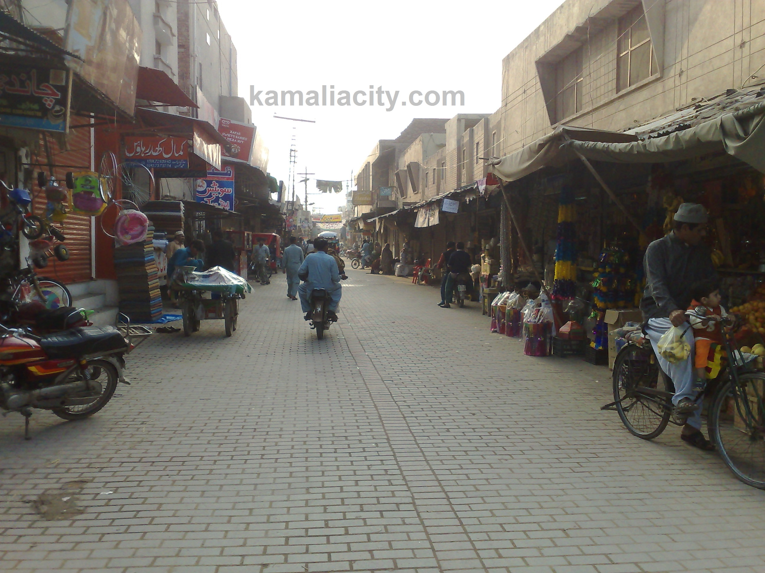 an old and big market of Kamalia, Toba Tek Singh, Punjab